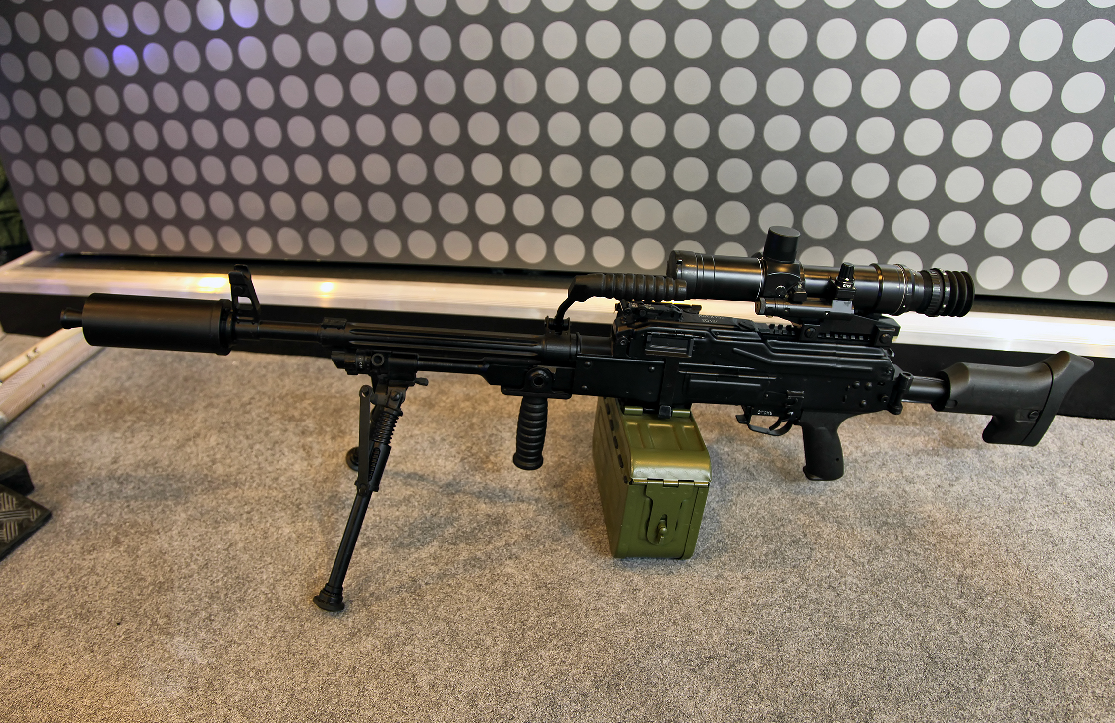 7.62mm machine gun 6P69 Pecheneg-SP